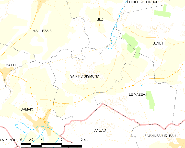 Map of French municipality Saint-Sigismond